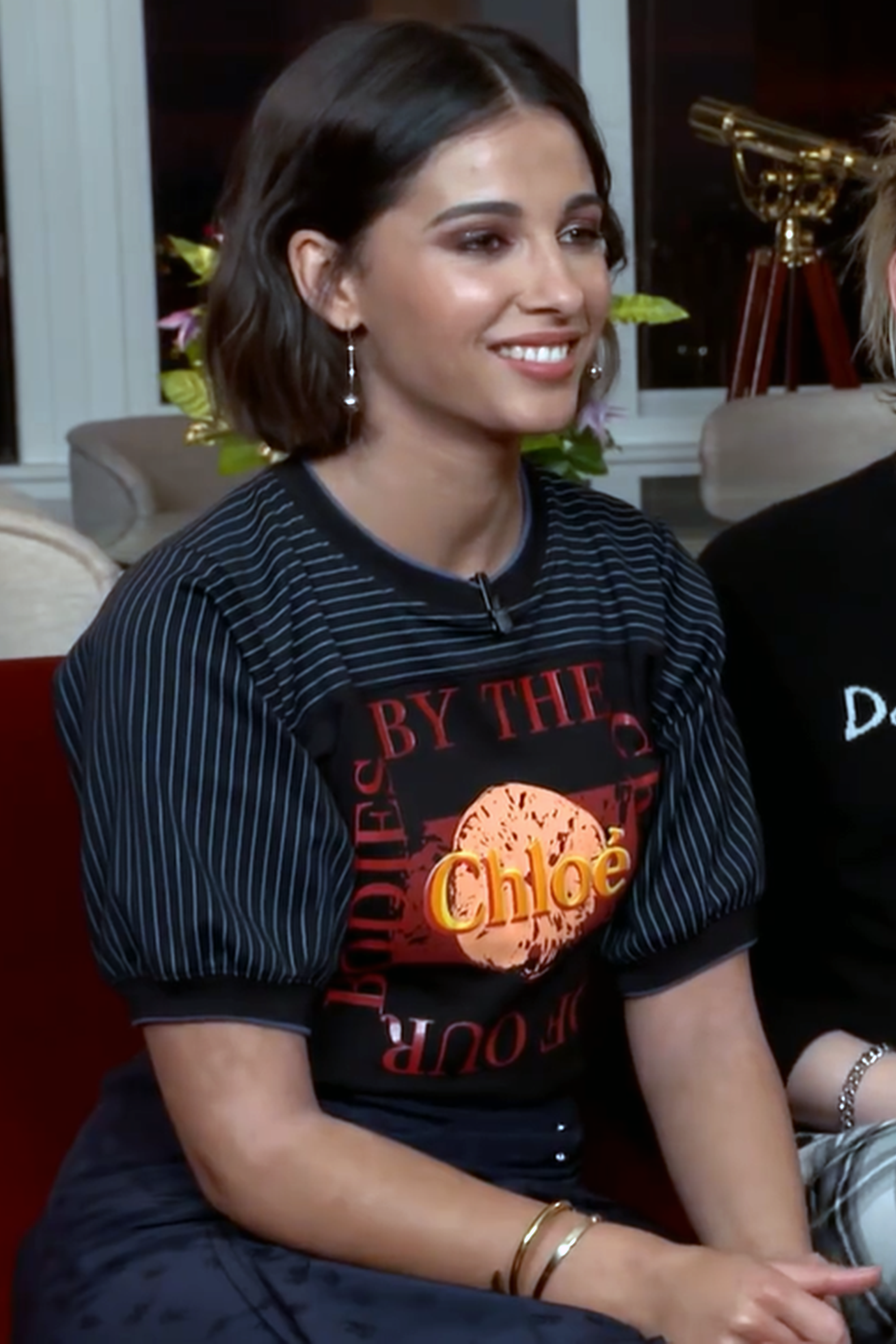 Naomi Scott during interview, November 2019.